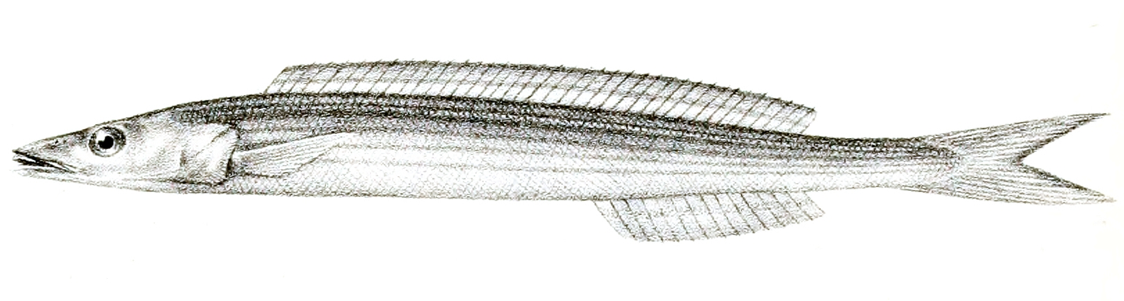 Bleekeria kallolepis syn. Ammodytes kallolepis The species names / identity need verification. The original plates showed the fishes facing right and have been flipped here. Ammodytes kallolepis